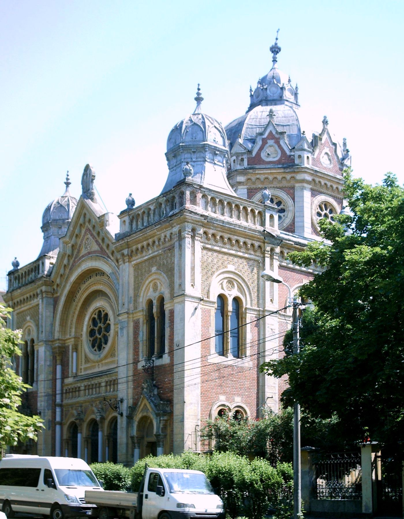 Fabric Synagogue in Timişoara, Romania